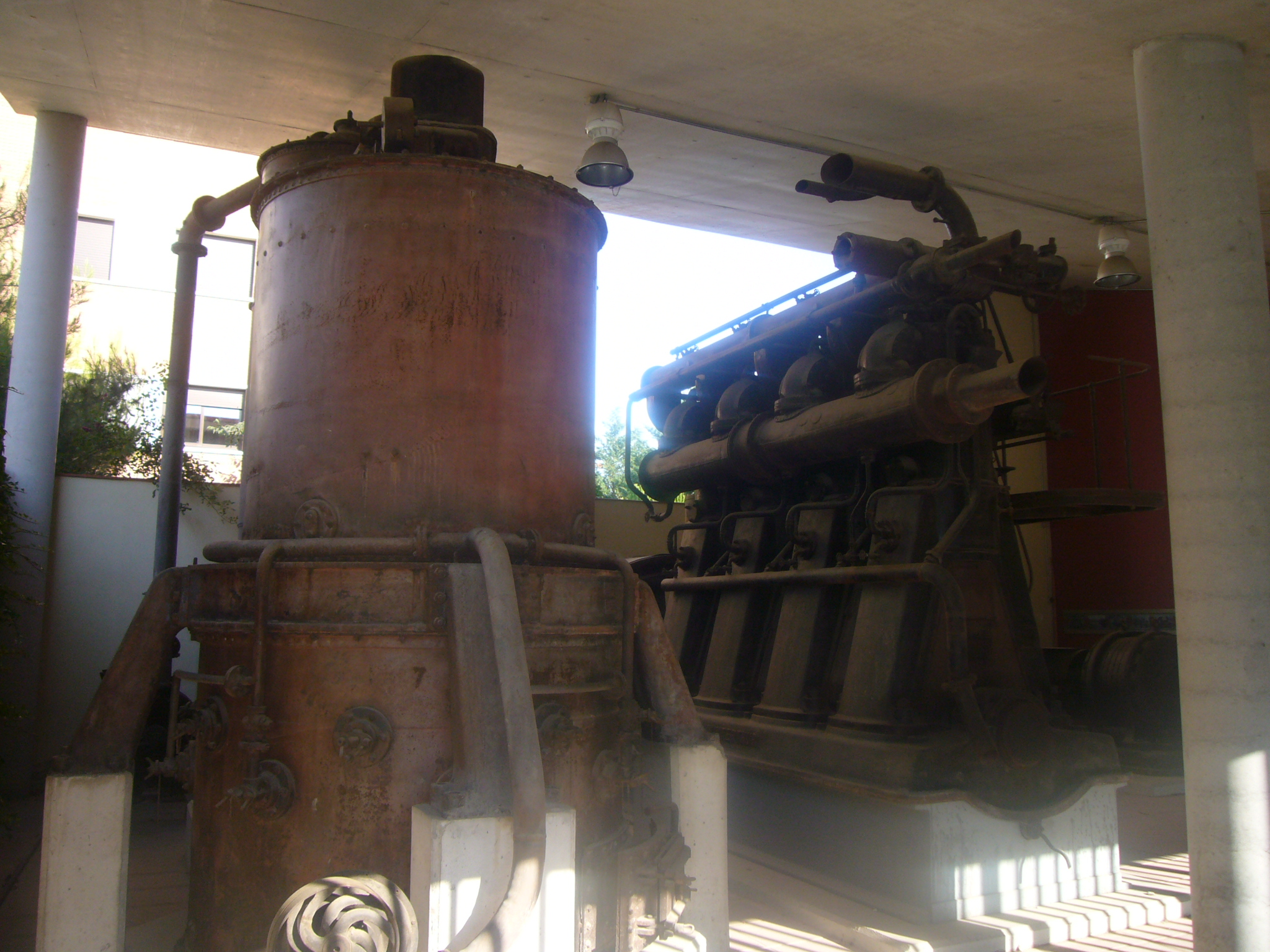 Gasogen de Cal Pasqual